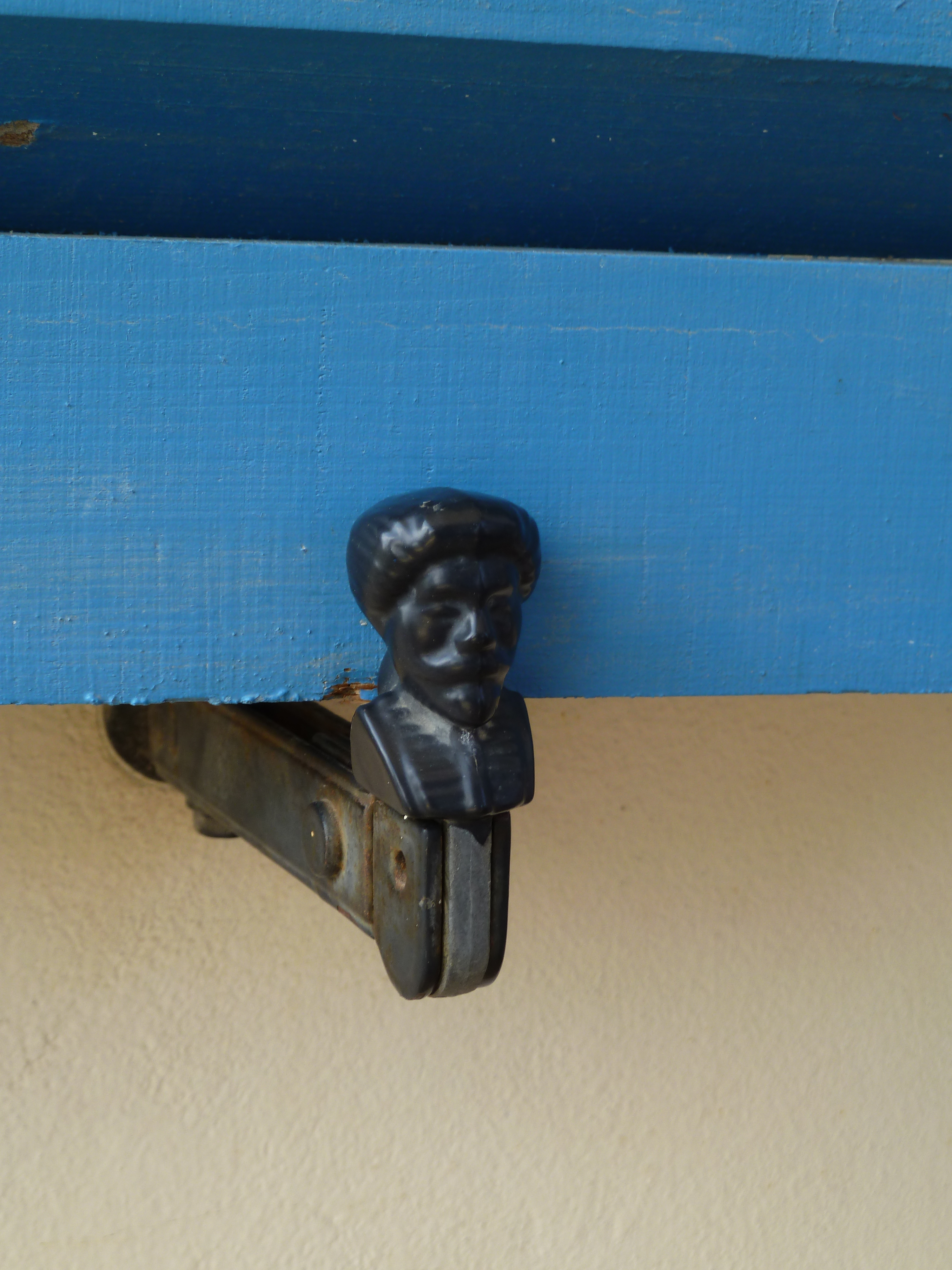 Nitsanim Palace